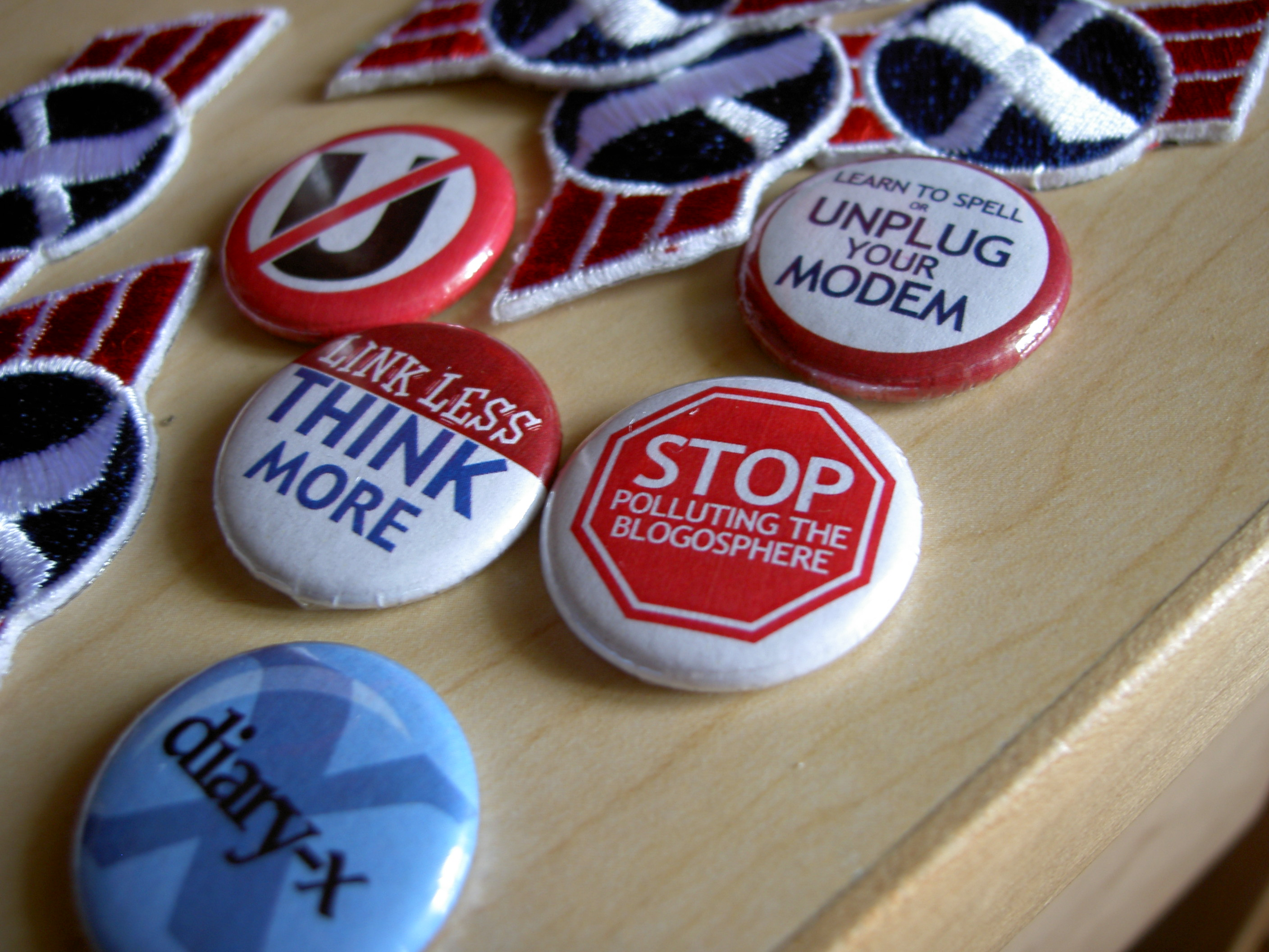 Buttons and patches made as promotional items for Diary-X, a blogging service available from 2000–2006.